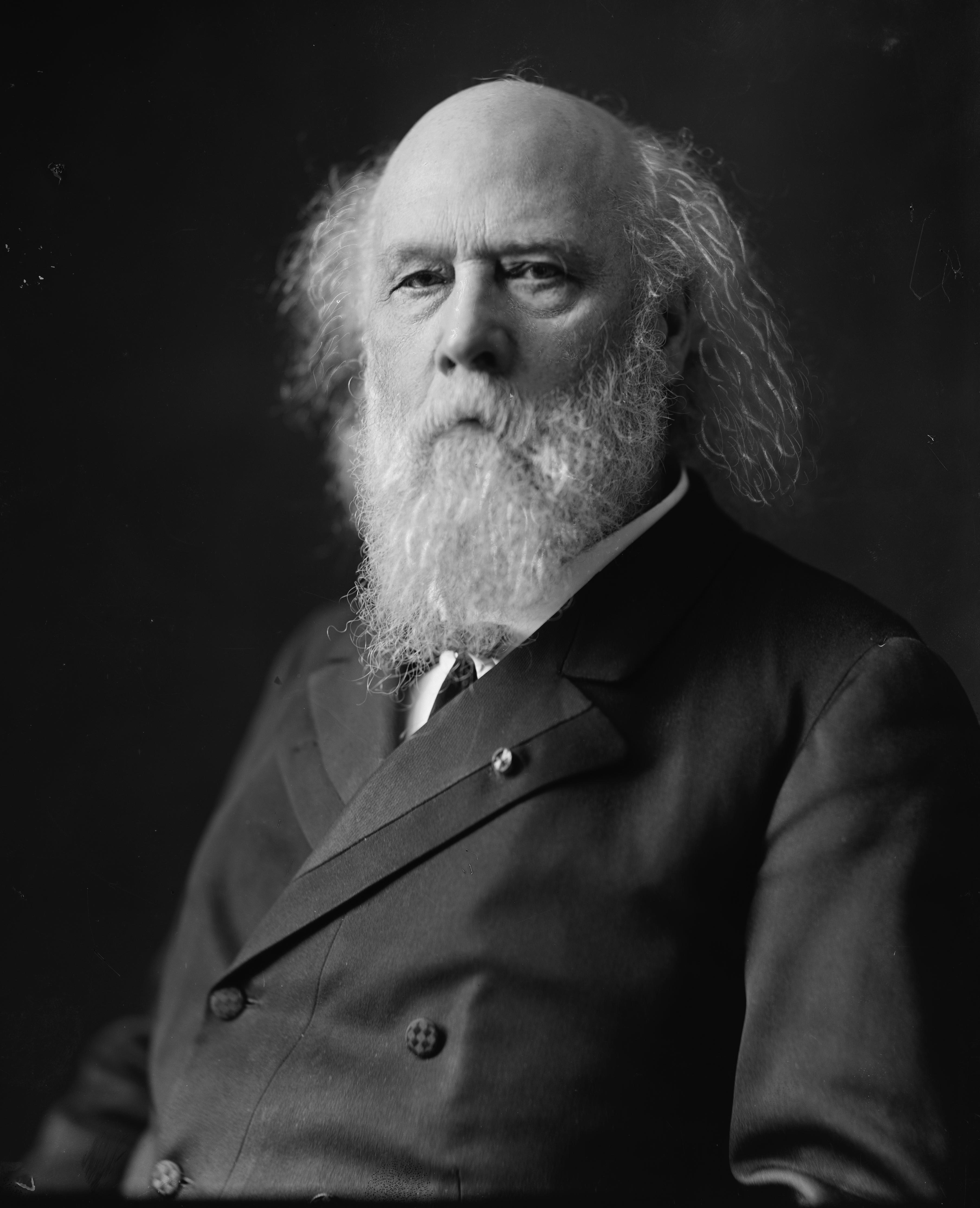 George W. Melville. Library of Congress description: "Melville, Adm., Artic Explorer; Engineer of the JEANETTE in 1880s; photographed c. 1910".